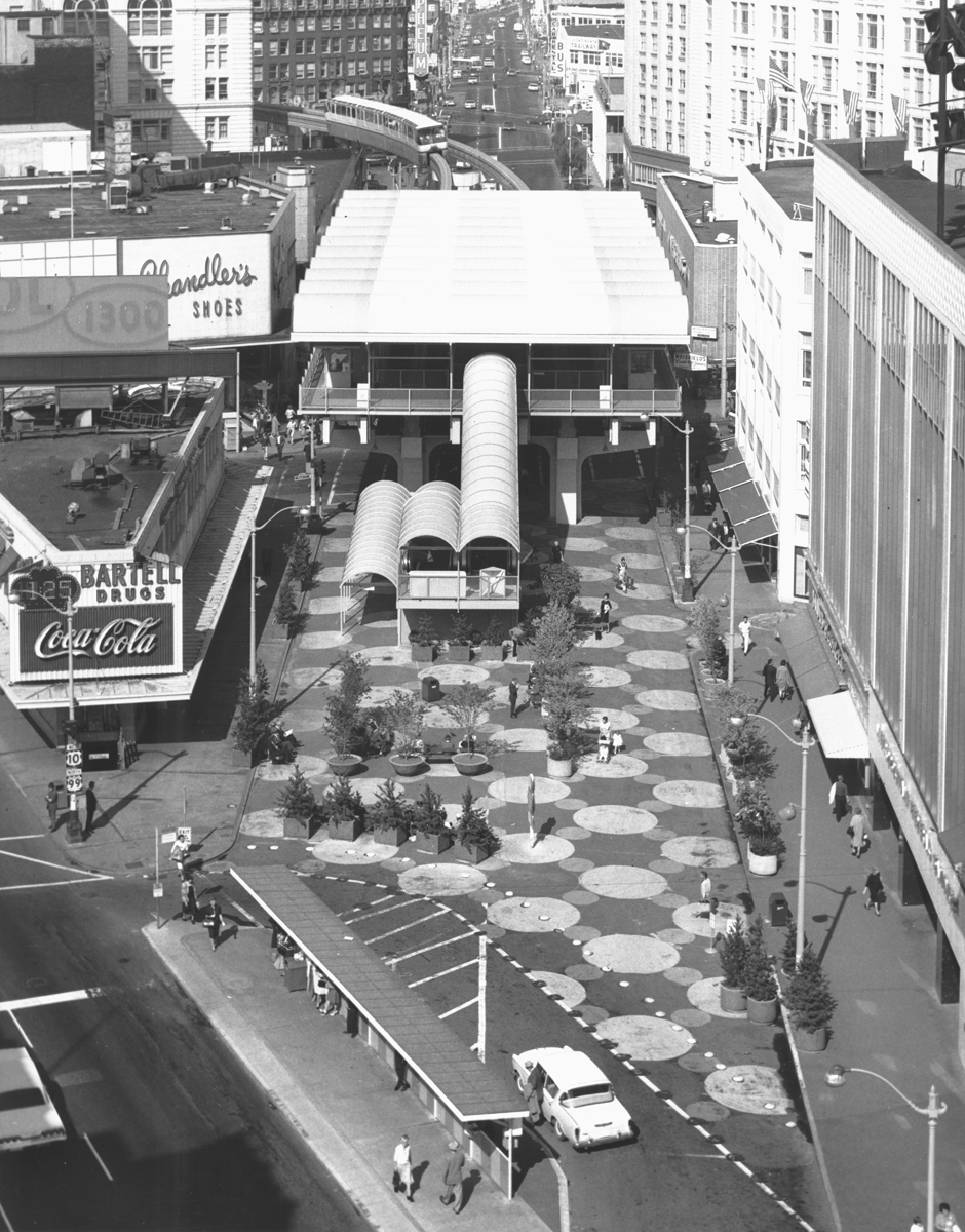 Seattle's original Westlake monorail station/terminal, 1963. The site is now reconfigured, with Westlake Center mall and Westlake Park. The station spanned over Pine Street. Item 30682, Don Sherwood Parks History Collection (Record Series 5801-01), Seattle Municipal Archives.